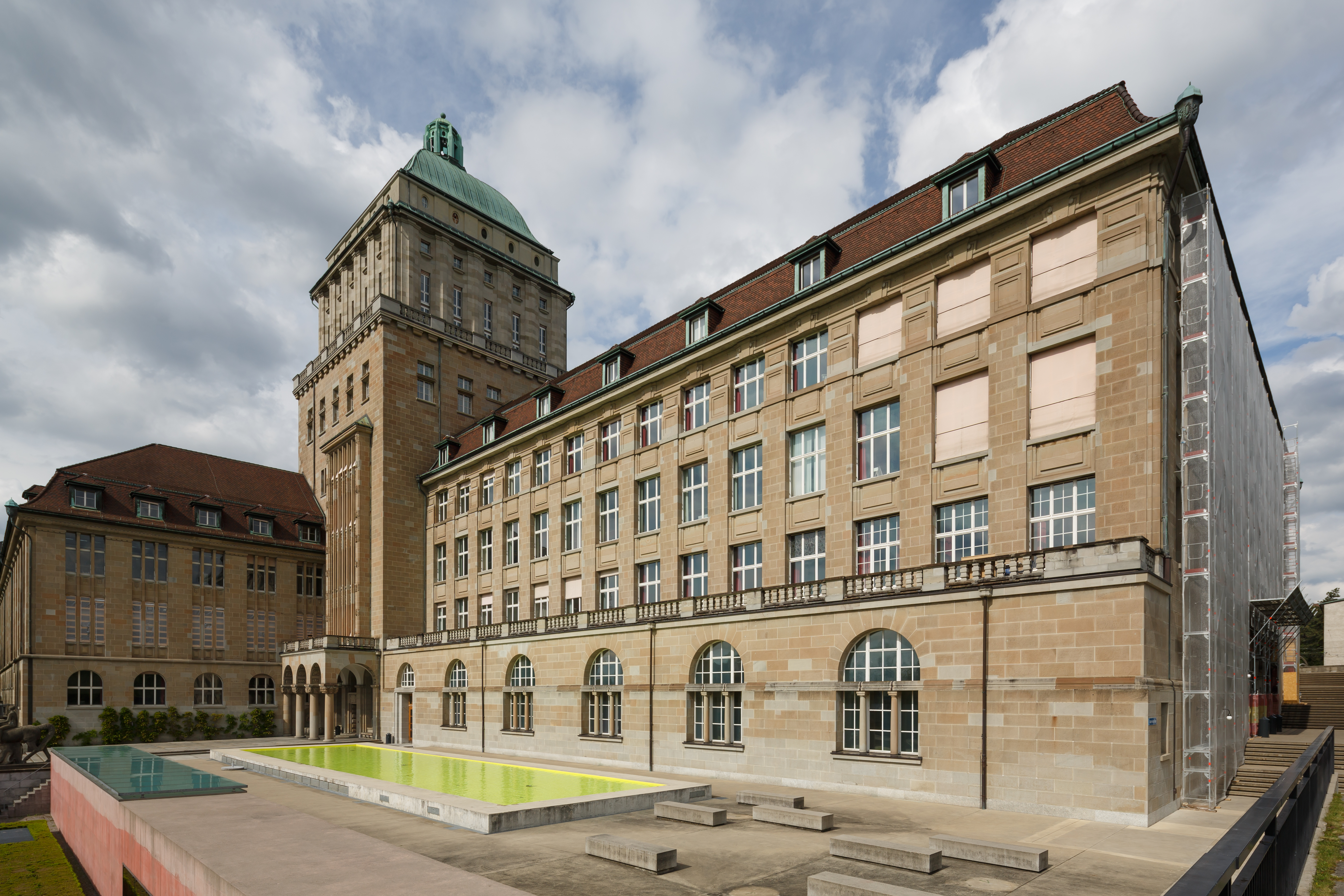 Zürich, Switzerland: University of Zurich (Main Building)